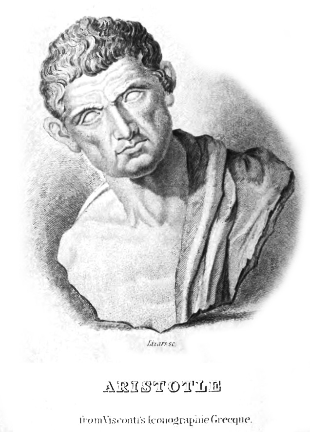 Aristotle